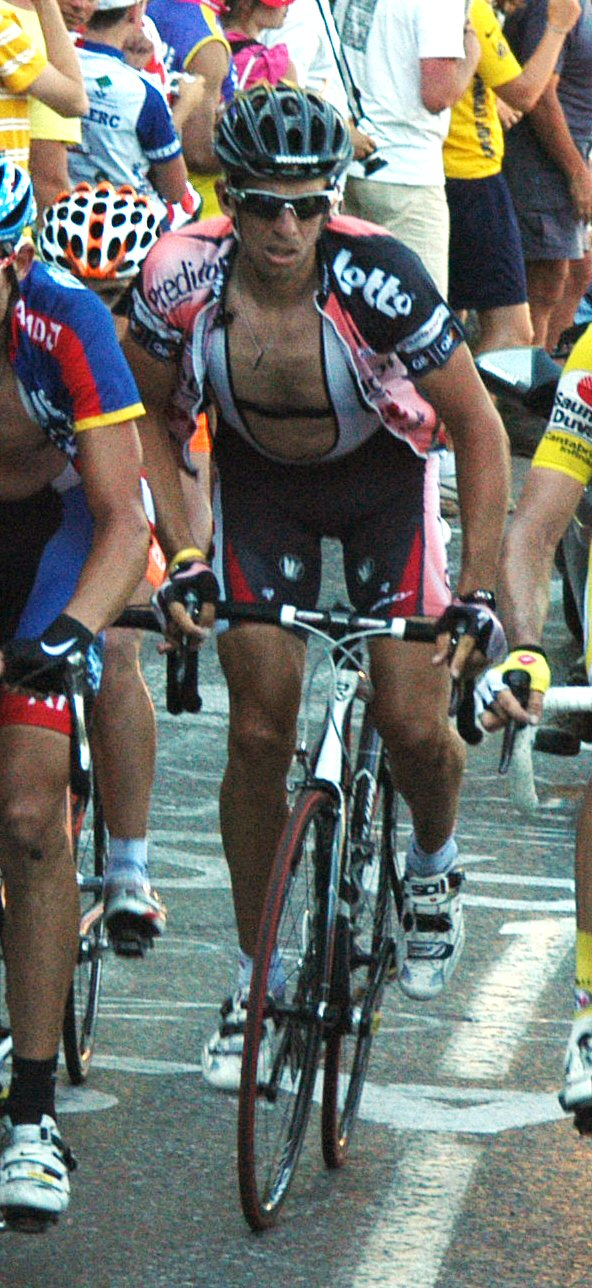 Dario Cioni at stage 7 of the Tour de France 2007 on the Col de la Colombière.